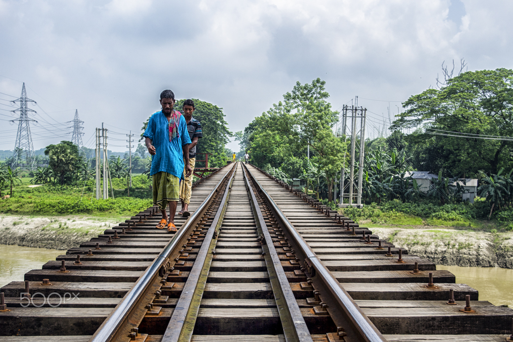 500px provided description: Work Walk [#city ,#street ,#water ,#river ,#travel ,#urban ,#architecture ,#bridge ,#railway ,#bangladesh ,#rail bridge ,#brahmaputra ,#mymensingh ,#brahmaputra river]